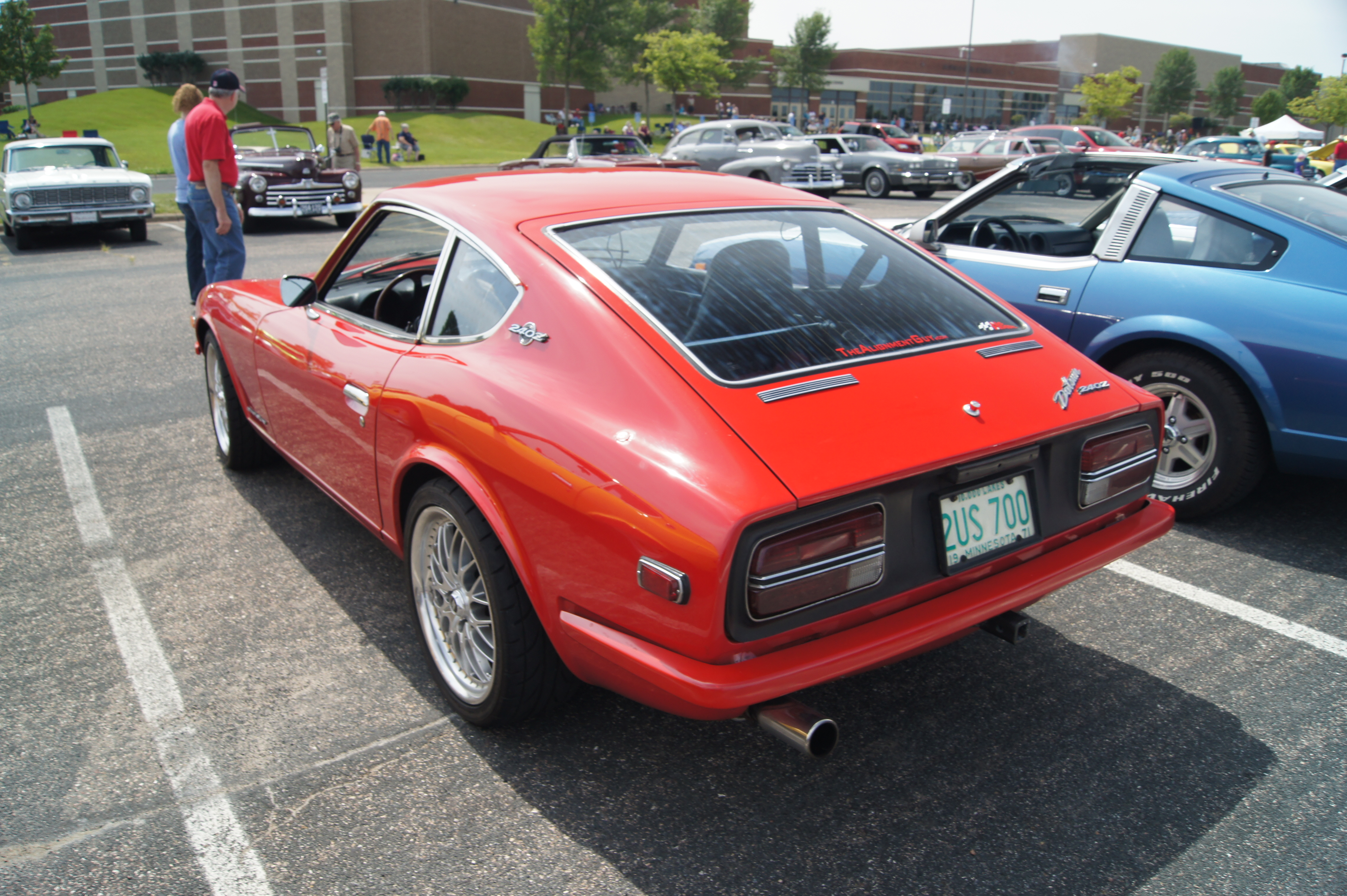 26th Annual New London to New Brighton Antique Car Run August 11, 2012.